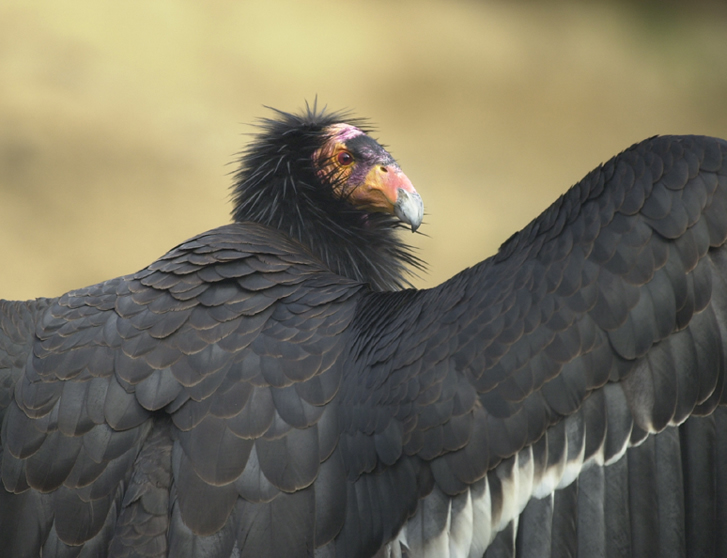 California condor (Gymnogyps californianus)